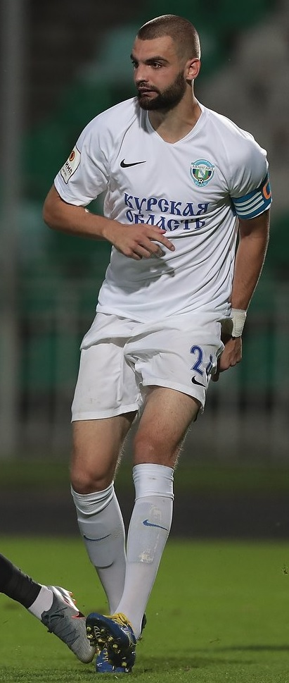 Kirill Gotsuk with FC Avangard Kursk in a game against FC Torpedo Moscow.